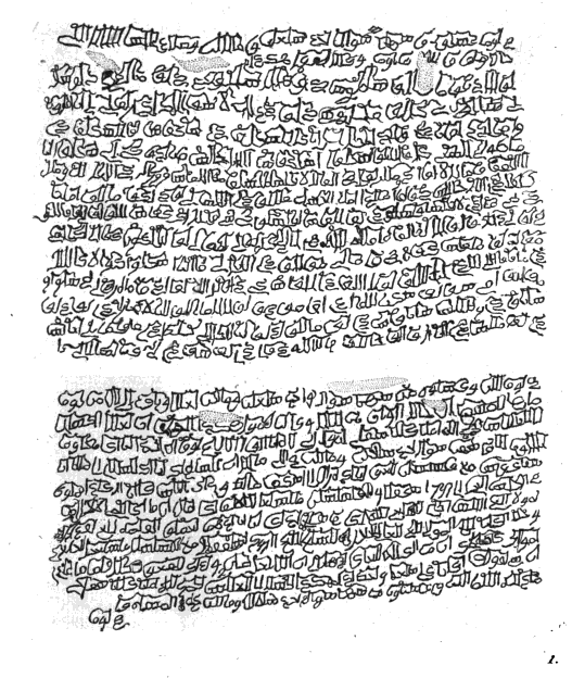 Marino I pope's letter in the code martiniano, eighteenth-century.